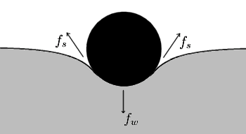 Author: Karl Hahn Subject: Illustrative diagram of surface tension forces on a needle floating on the surface of water (shown in crossection). Status: Released to public domain.